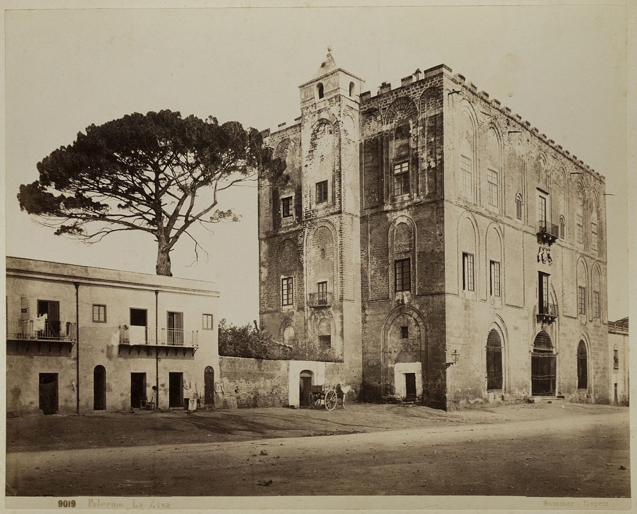 Giorgio Sommer (1834-1914): Palermo, Castello La Zisa. Neg-No. 9019